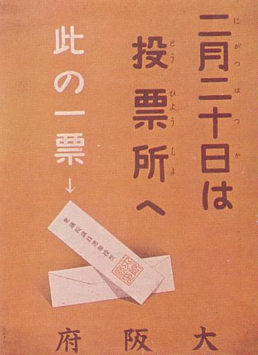 1928 Japanese General Election Poster